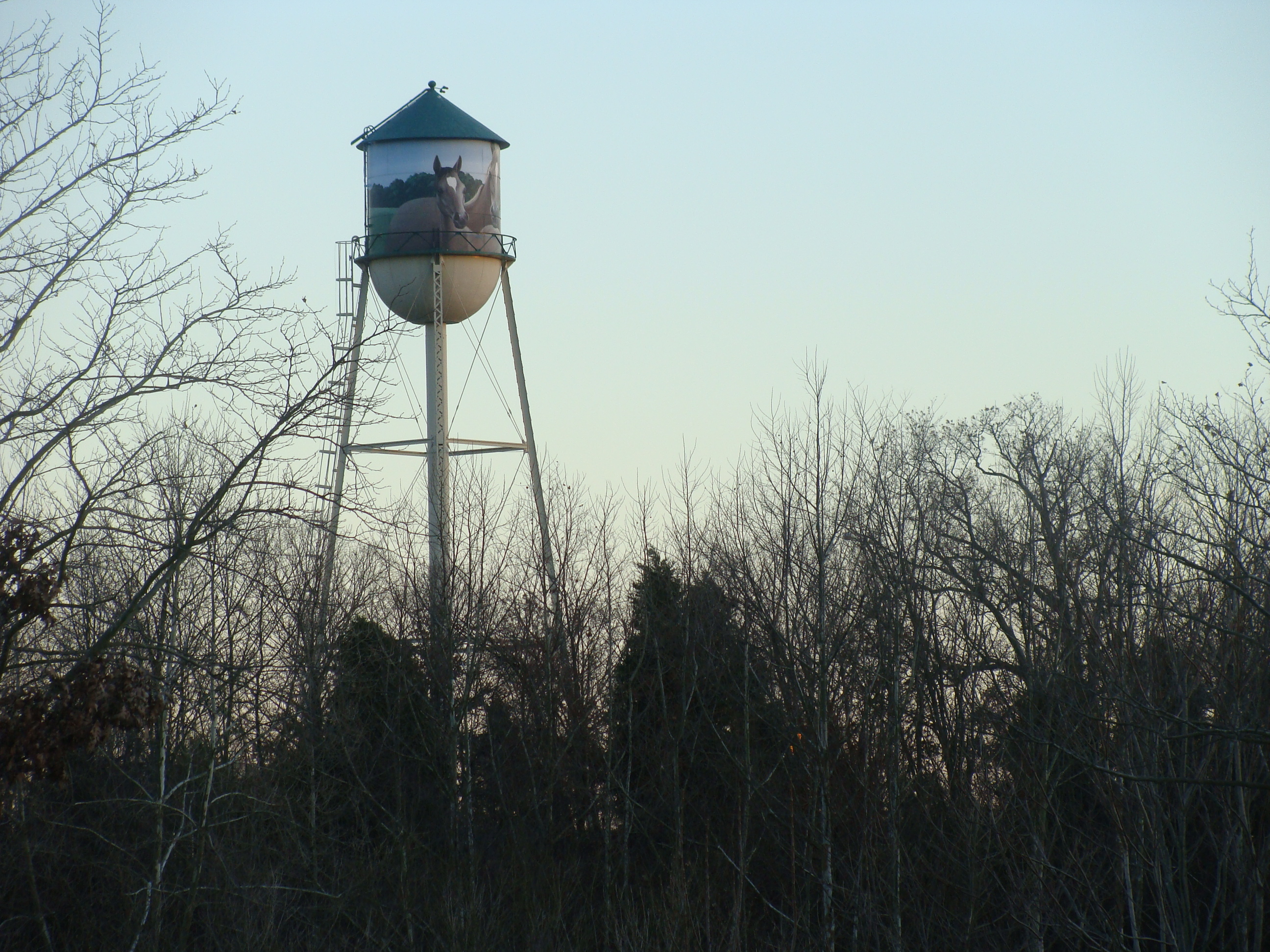 Photograph of painted water tower at the PG equestrian center